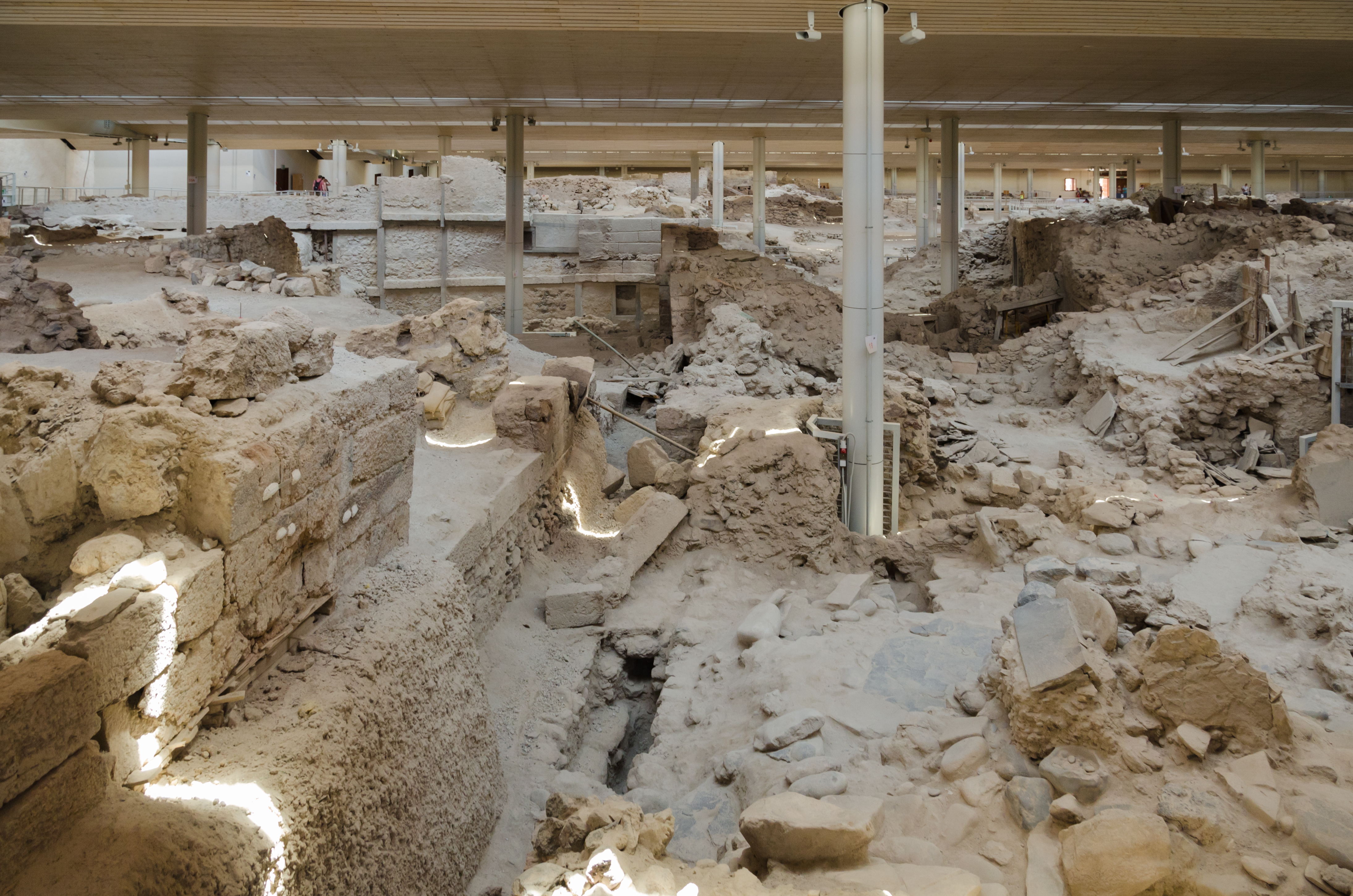 Akrotiri is the name of an excavation site of a Minoan Bronze Age settlement on the Greek island of Santorini, associated with the Minoan civilization due to inscriptions in Linear A, and close similarities in artifact and fresco styles. Akrotiri was buried by the widespread Theran eruption in the middle of the second millennium BC (during the Late Minoan IA period); as a result, like the Roman ruins of Pompeii after it, it is remarkably well-preserved.